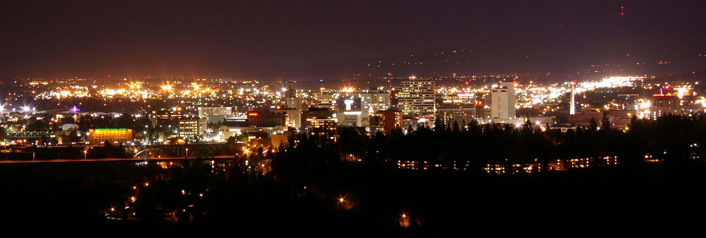 The city of Spokane at night, as viewed from the southwest